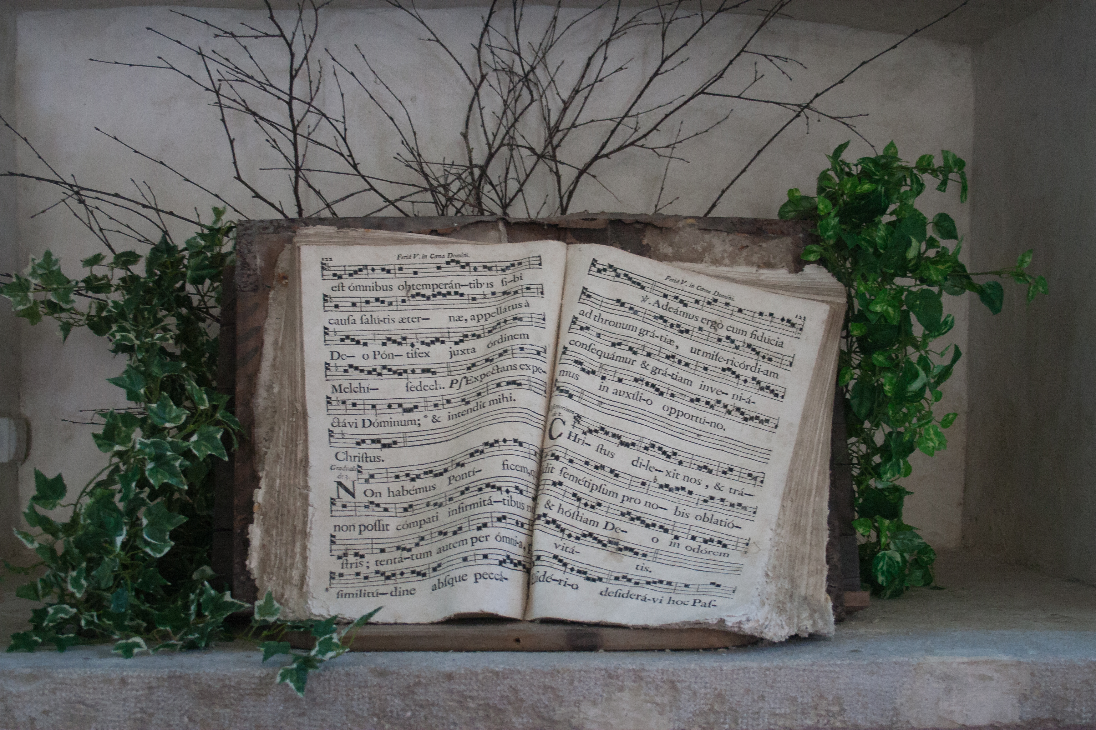 Aged gradual book with a Gregorian chant for Hebrews 4:15.